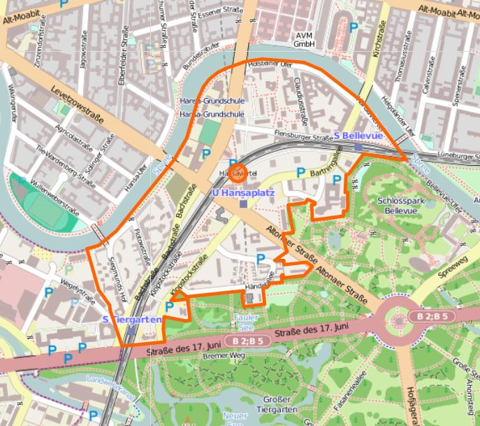 Berlin-Hansaviertel and vicinity